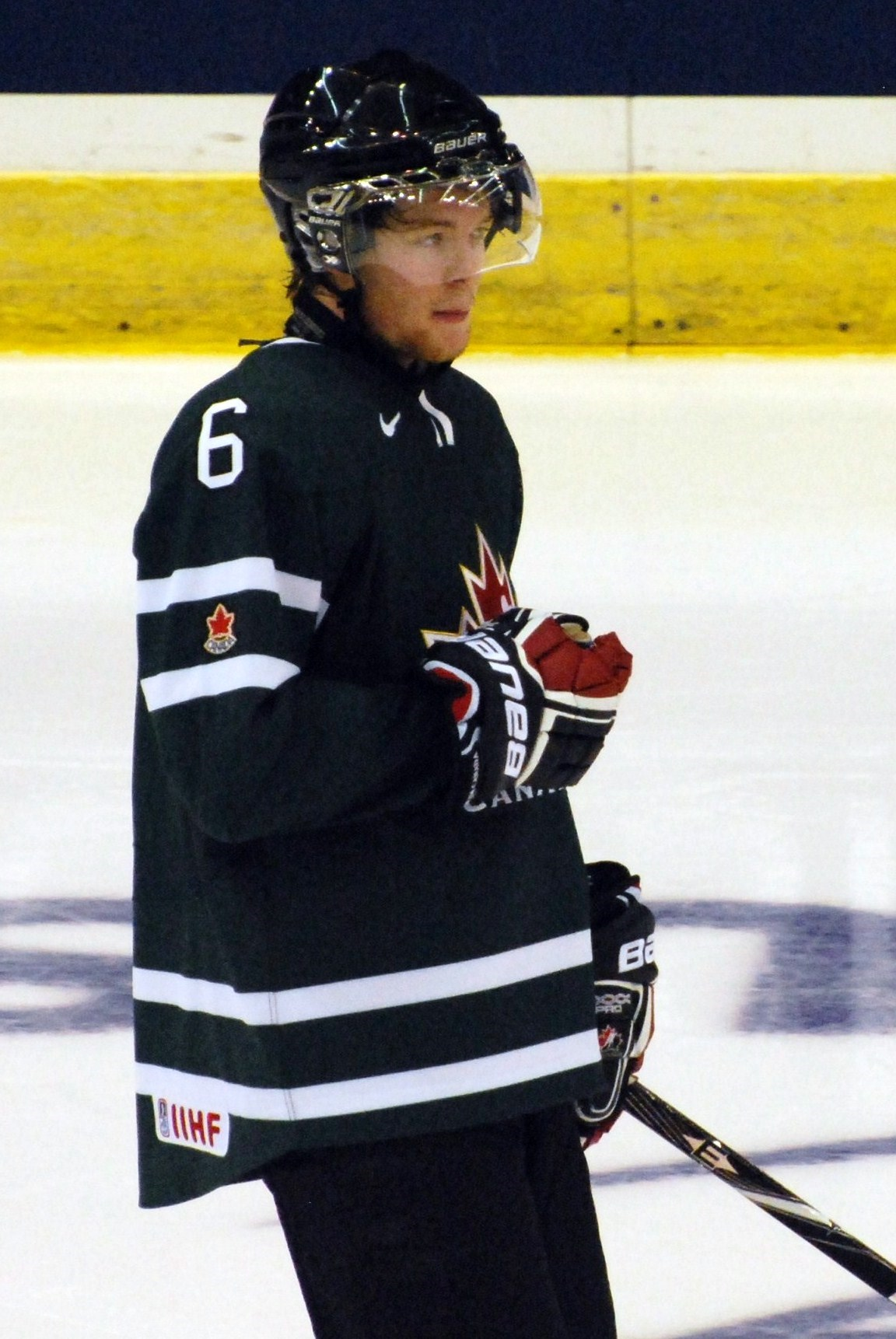 Canadian defenceman Ryan Ellis during the 2010 World Junior Championships on December 20, 2009. Camera: Nikon D60 License on Flickr (2010-12-29): CC-BY-SA-2.0 Flickr tags: world junior hockey championships, hockey, canada, world, team canada